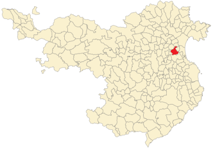 Torroella de Fluvià